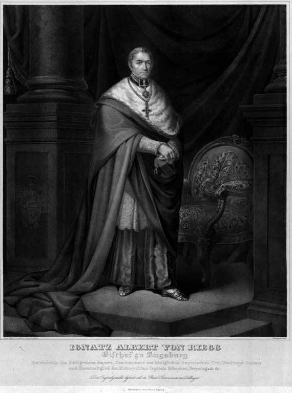 The roman catholic bishop Ignaz Albert von Riegg (1767-1836)